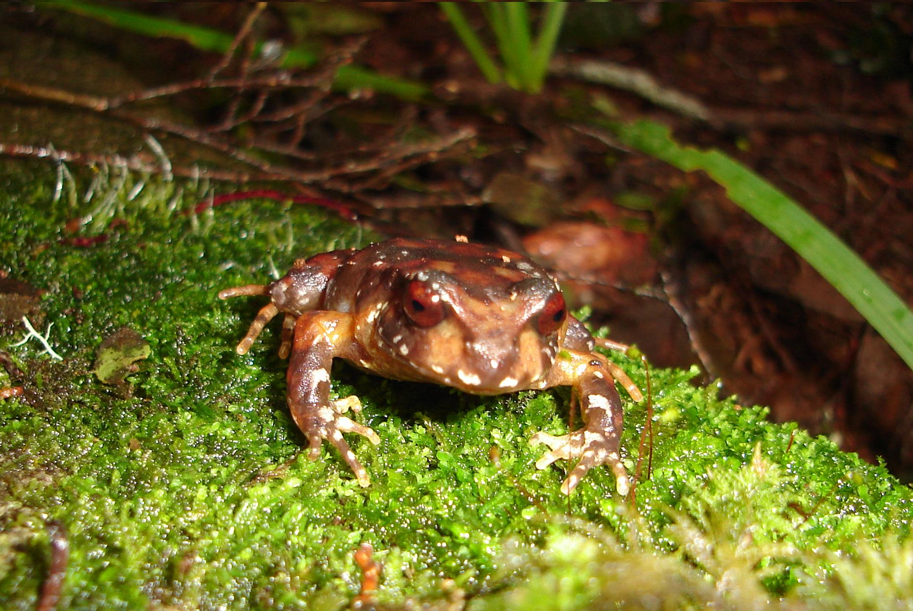 Eupsophus roseus